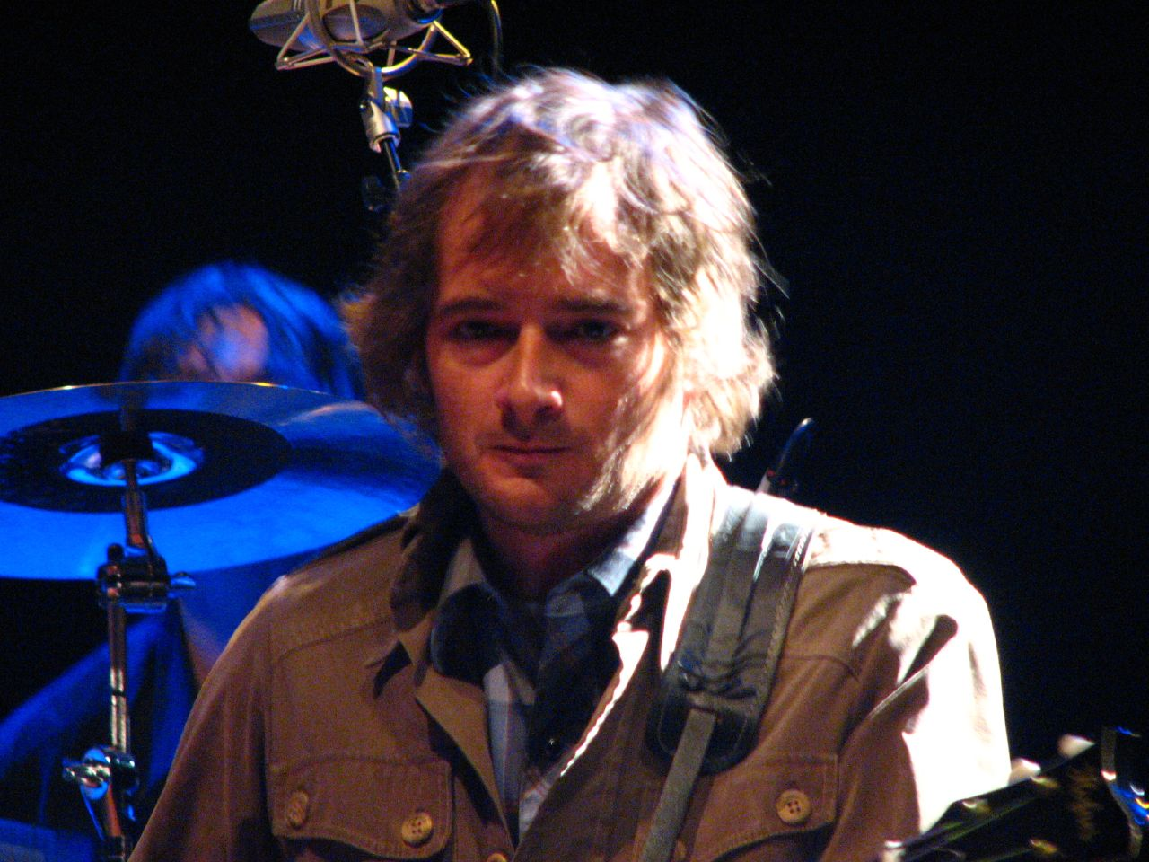 John Stirratt, bassist for American rock group Wilco